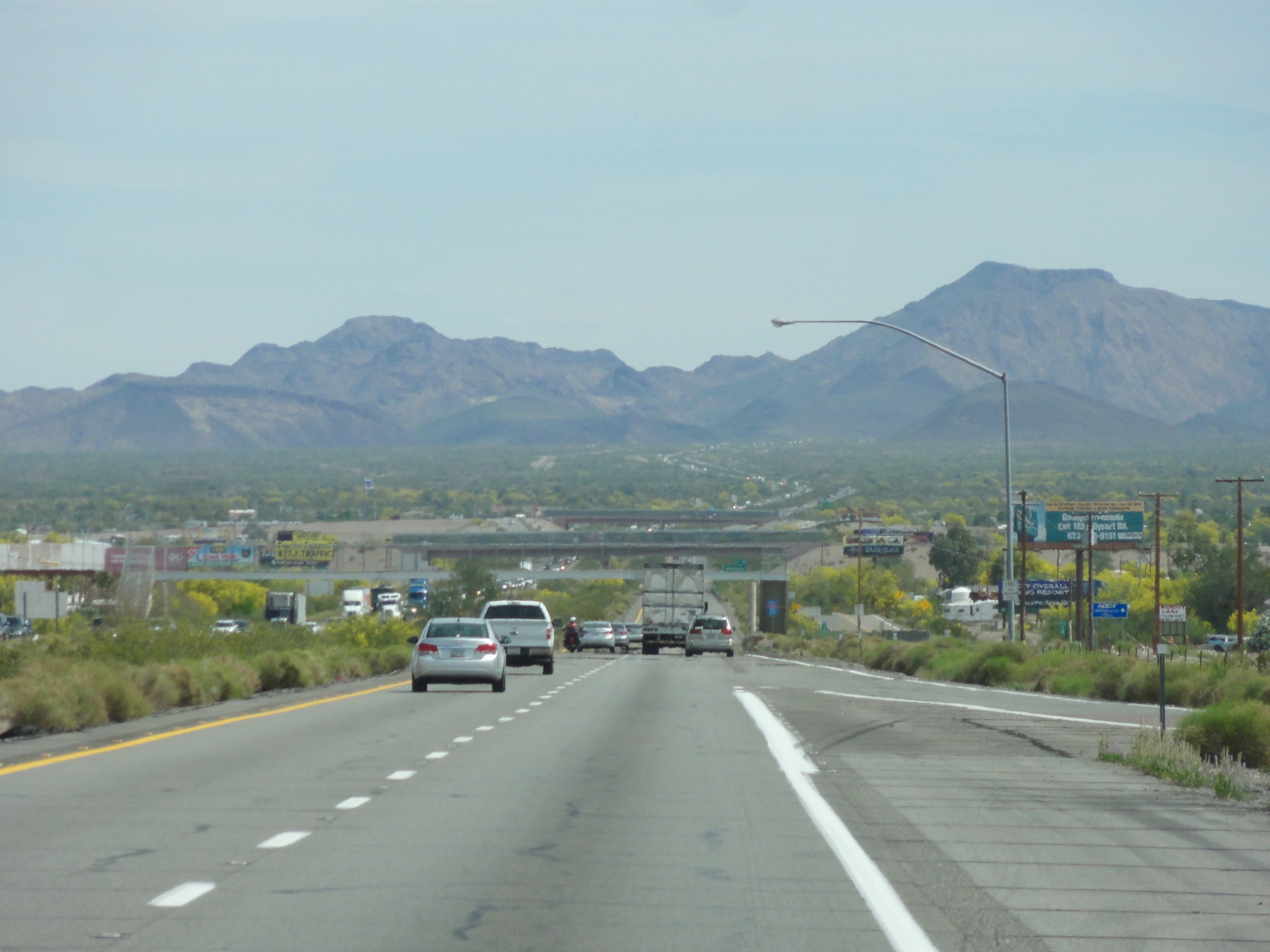 Interstate 10 near Quartzsite, Arizona. (view almost due-east)